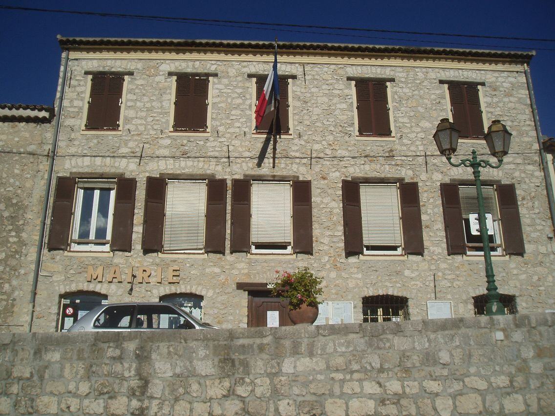 The city hall of Aspremont